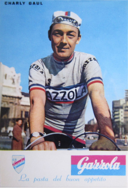 Charly Gaul c1961-1963